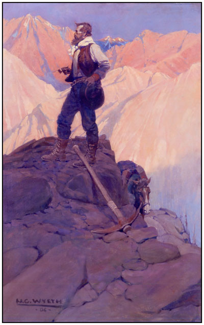 The Prospector by Newell Convers Wyeth (1888-1945) Oil on canvas (1906), painted for McClure's Magazine to illustrate "The story of Montana: The treasure of Butte Hill and development of the great copper industry" (September issue, 1906).